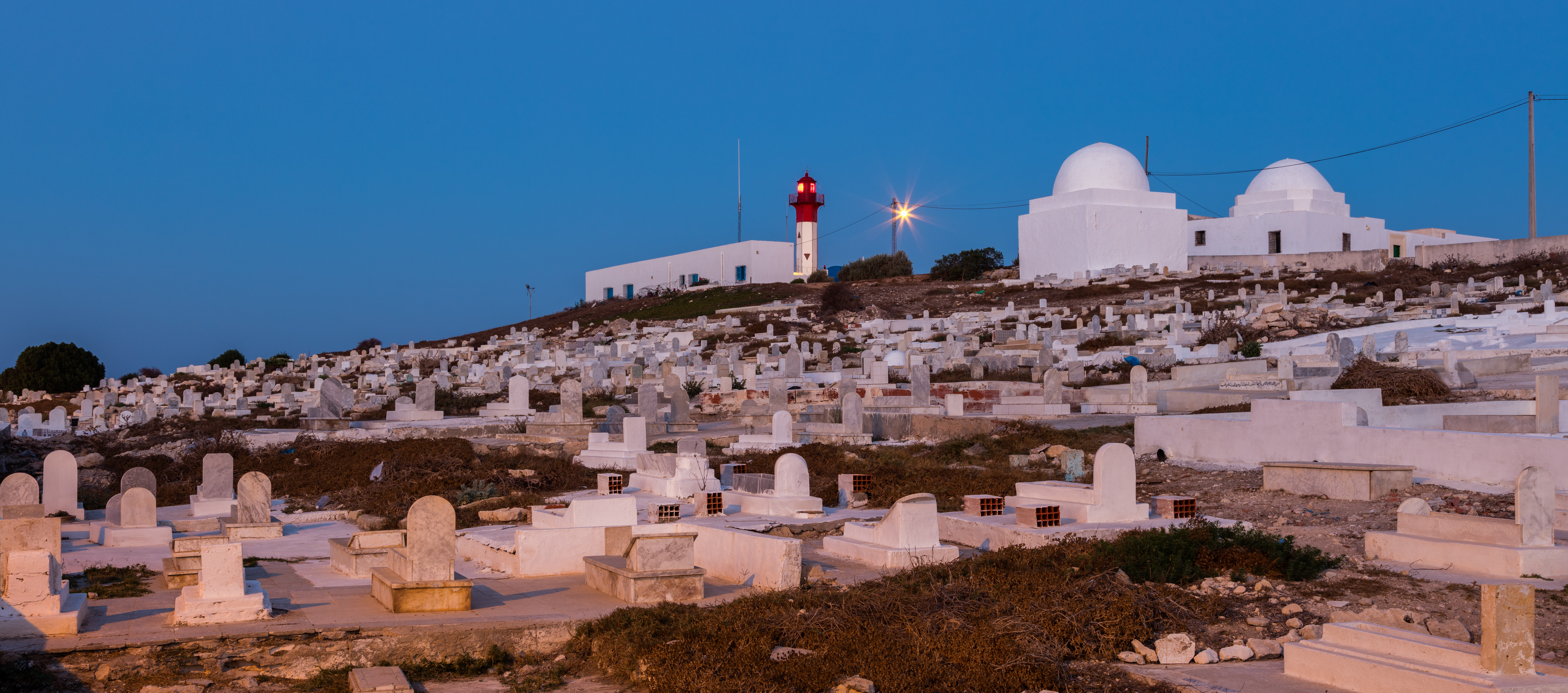 Marine cemetery and lighthouse, Mahdia, Tunisia